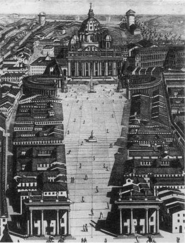 A plan for an open V-shaped boulevard connecting St. Peter's Square to the River Tiber, precursor to the Via della Conciliazione